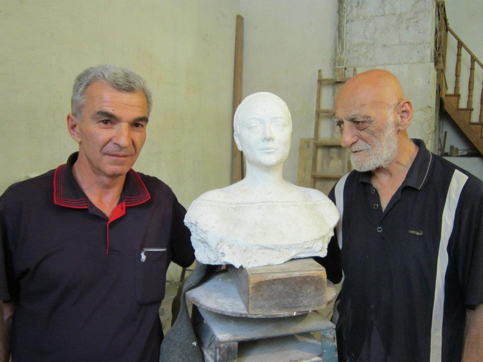 Սամվել Խաչատրյան, Արտաշես Հովսեփյանի հետ